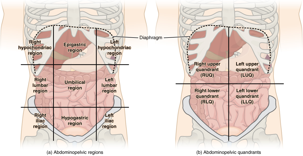 There are (a) nine abdominal regions and (b) four abdominal quadrants in the peritoneal cavity.